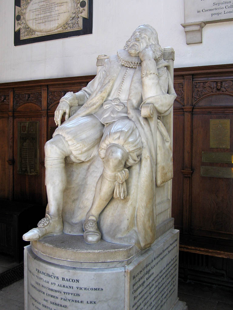 Memorial to Francis Bacon in the chapel Trinity College, Cambridge The statue is a copy of the one by Sir Thomas Meautys at St Michael's church in St Albans shown at Image:20040912-001-francis-bacon.jpg, although without the hat.